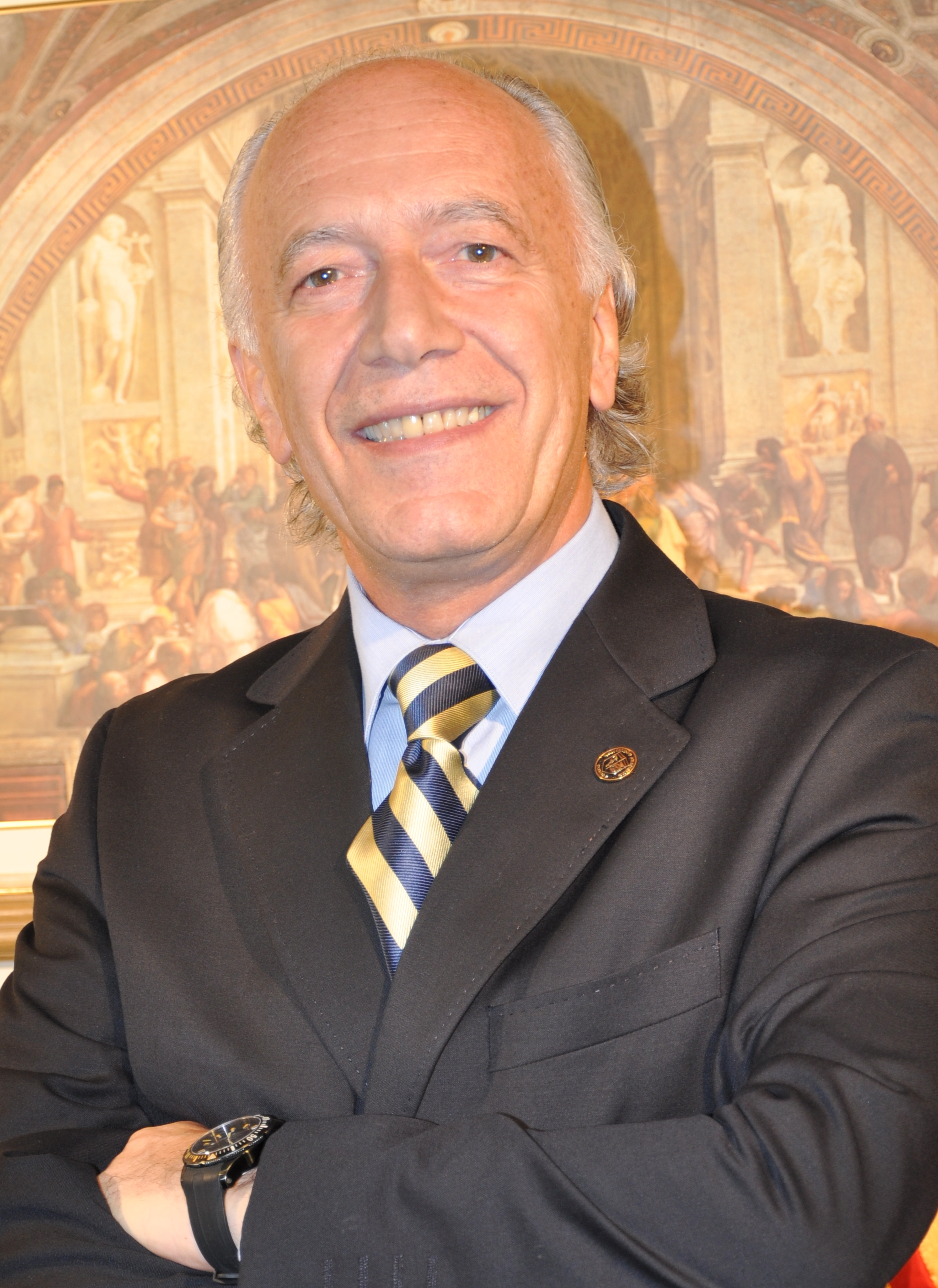 Professor Andrés Benkö PhD, Rector of the Universidad Americana of Paraguay